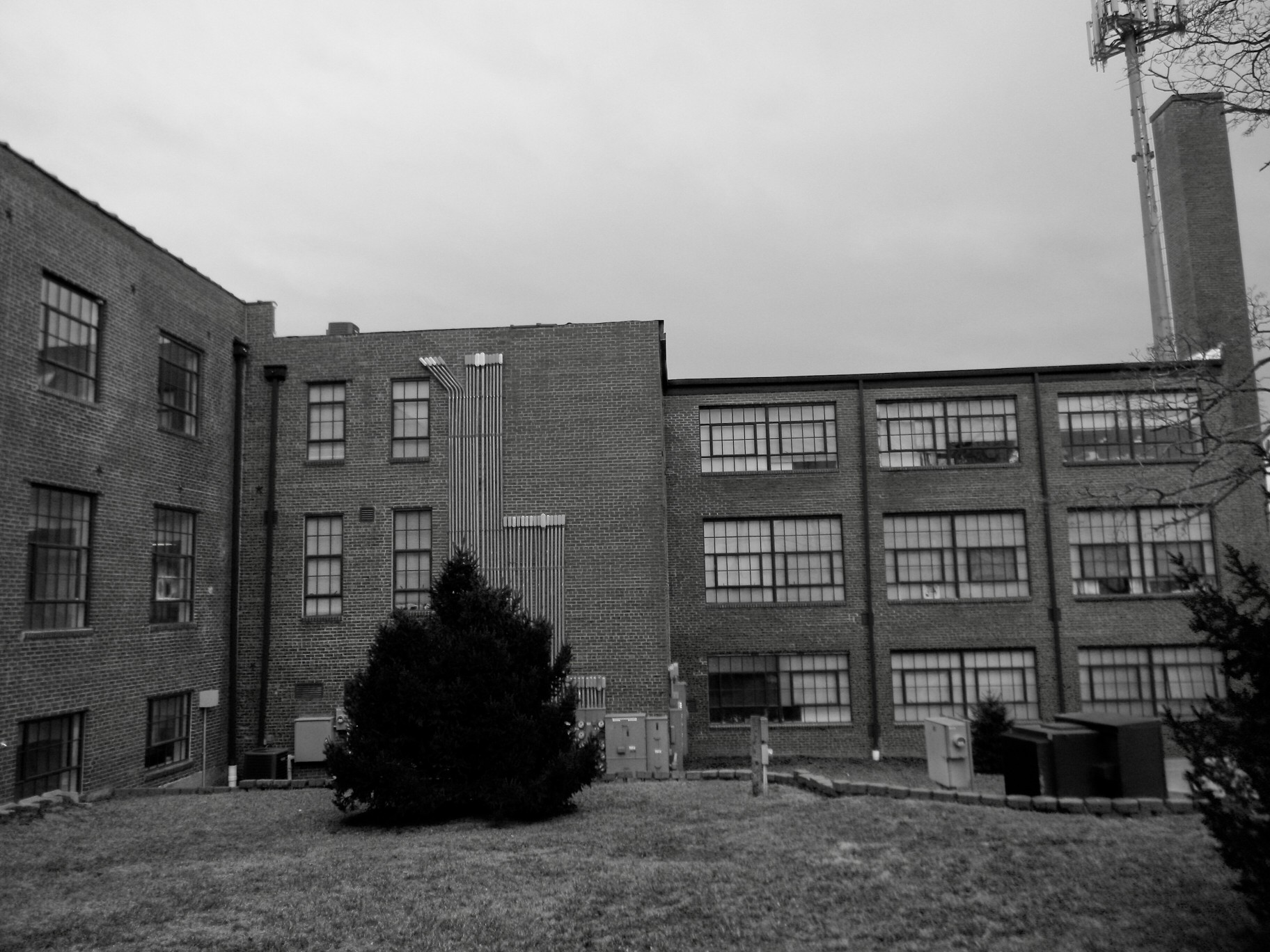 Fore Shoe Company Building